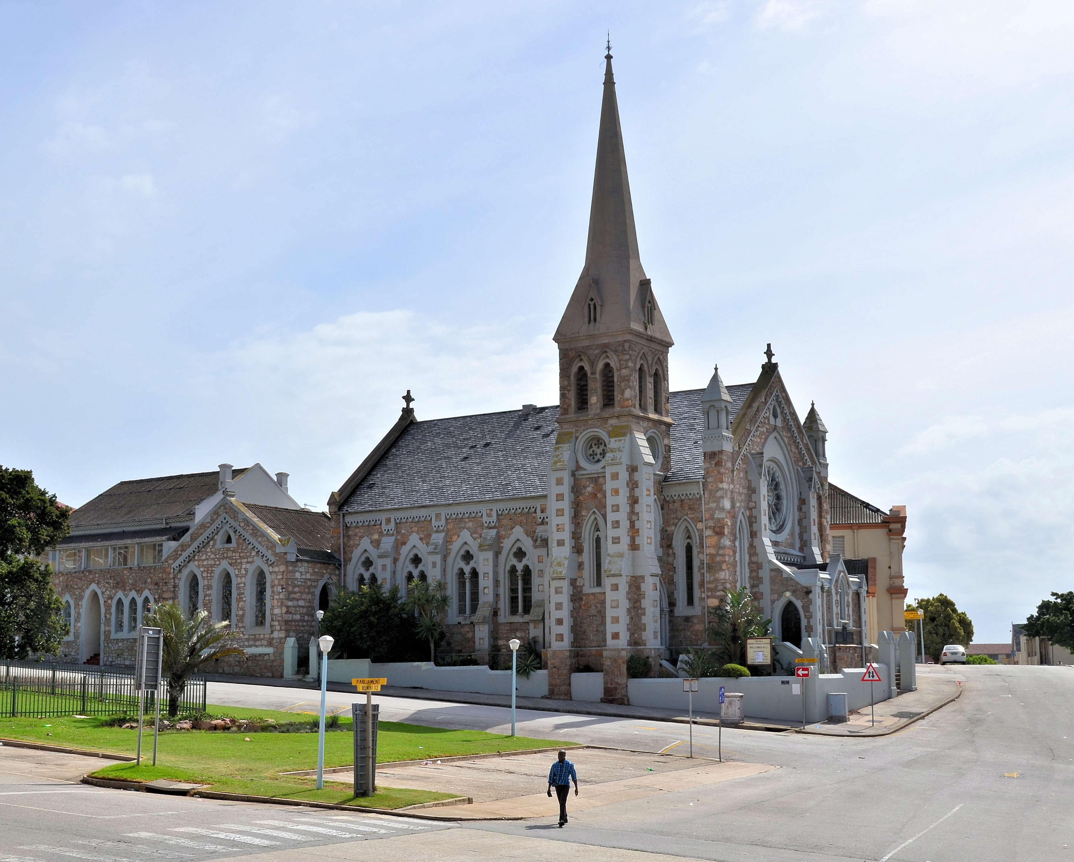 The Hill Presbyterian Church, Central, Port Elizabeth, South Africa